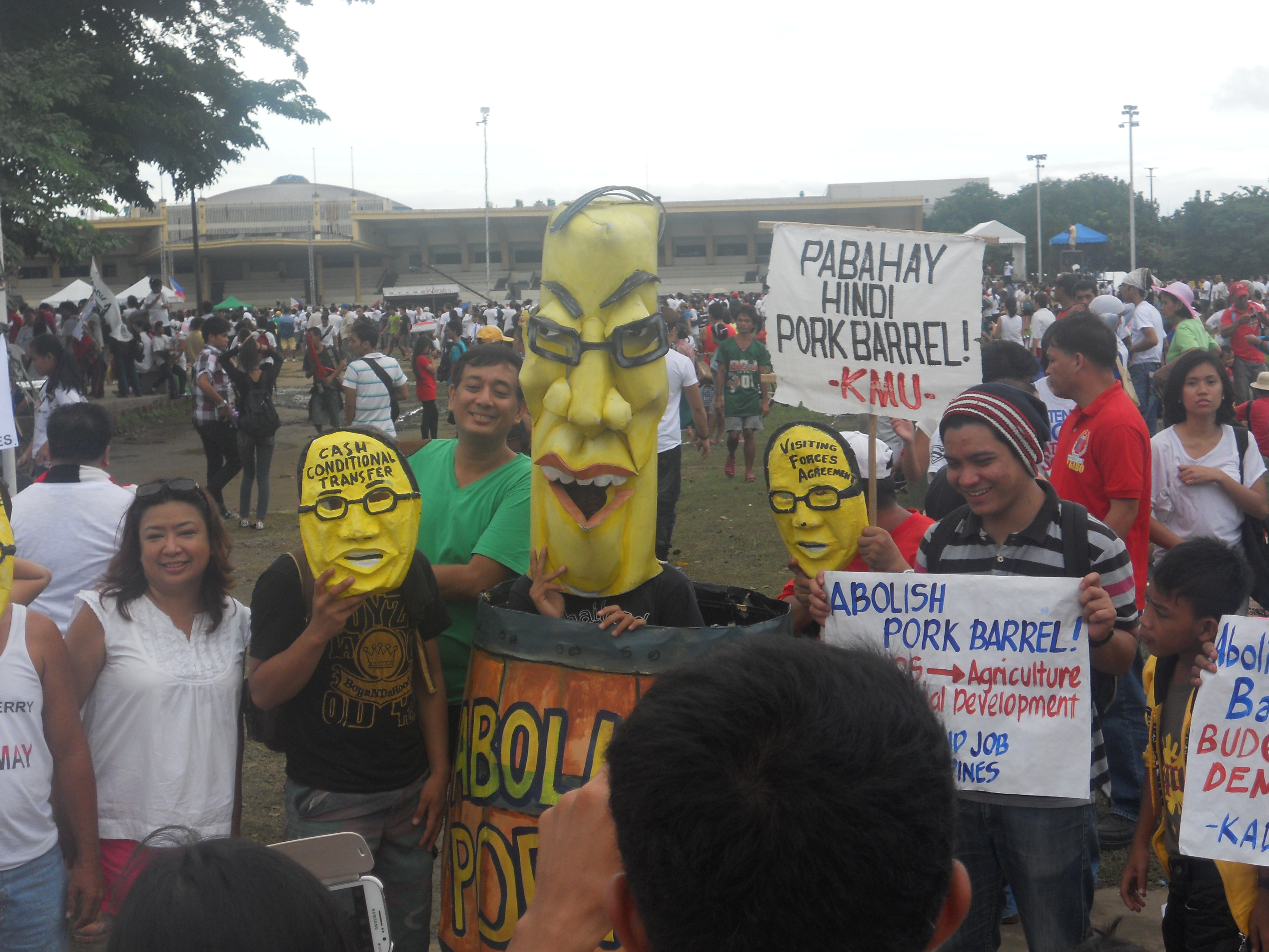 Million People March in Luneta against Pork Barrel